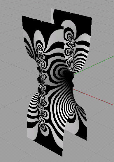 A surface rendered with zebra striping in the CAD program Rhino. The surface is a Wohlgemuth-Thayer minimal surface.